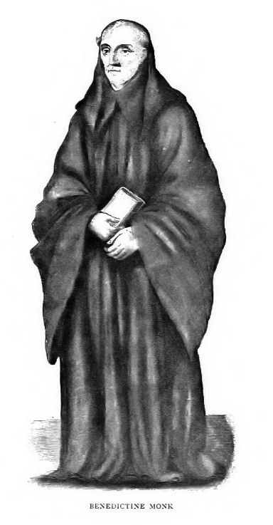 Published in London. Image of Benedictine monk